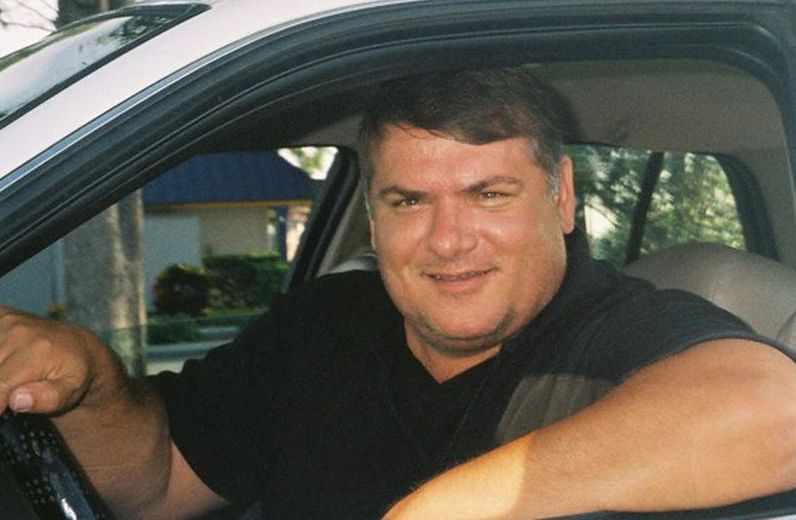 Tim Fasano in his cab